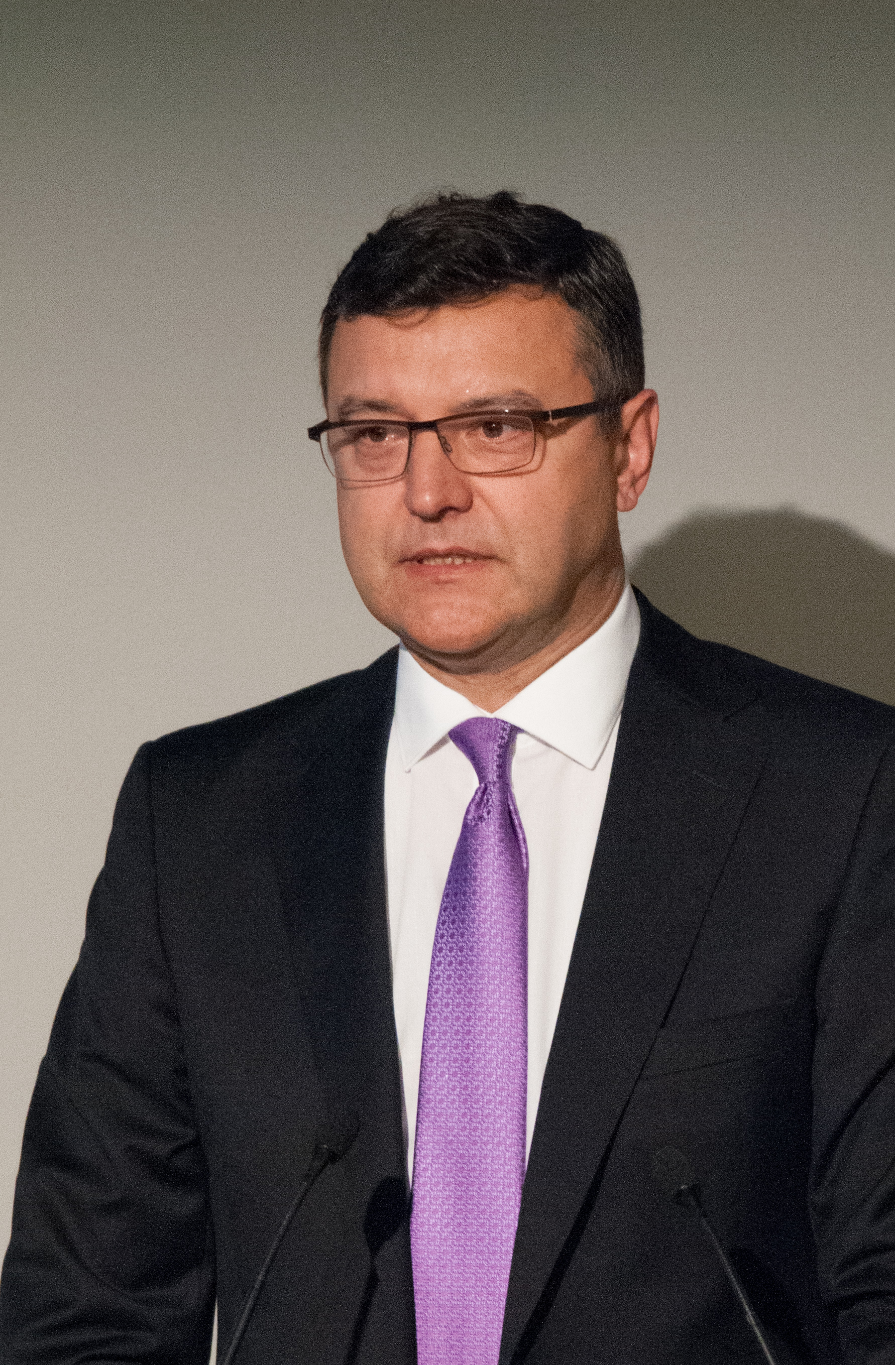 25. Baltic Sea Parliamentary Conference vom 28.-30. August 2016 in Riga. THIRD SESSION: Jānis Reirs, Minister of Welfare, Latvia